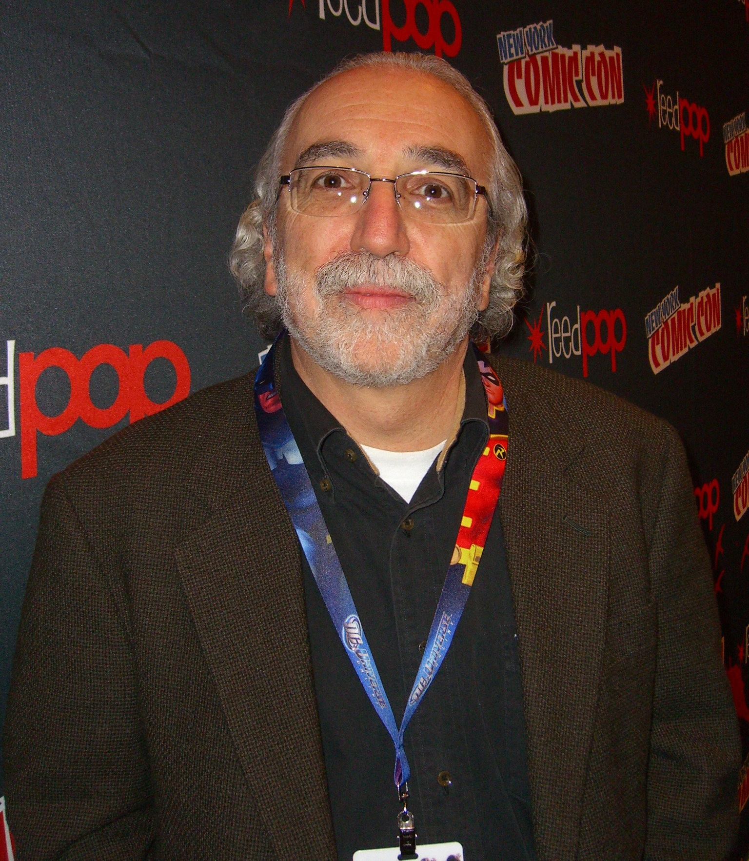 Mad magazine Editor-in-Chief John Ficarra at the Mad magazine discussion panel on Day 3 of the 2012 New York Comic Con, Saturday October 13, 2012 at the Jacob K. Javits Convention Center in Manhattan. This photo was created by Luigi Novi. It is not in the public domain, and use of this file outside of the licensing terms is a copyright violation.